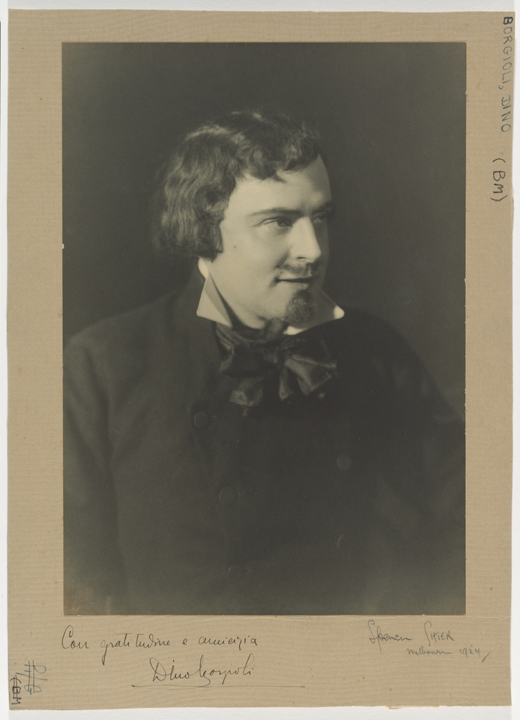 Note: Just as Sutherland promoted Pavarotti to lead tenor in her 1965 Australian opera tour, Melba helped the early career of Borgioli by making him her lead tenor. He sang Rodolfo in Sydney 10 years before he sang it at the Metropolitan Opera, New York. He never quite overcame the fame of his contemporary Tito Schipa, however. Format: Photograph Find more detailed information about this photographic collection: .au/item/itemDetailPaged.aspx?itemID=446510 Search for more great images in the State Library's collections: .au/search/SimpleSearch.aspx From the collection of the State Library of New South Wales